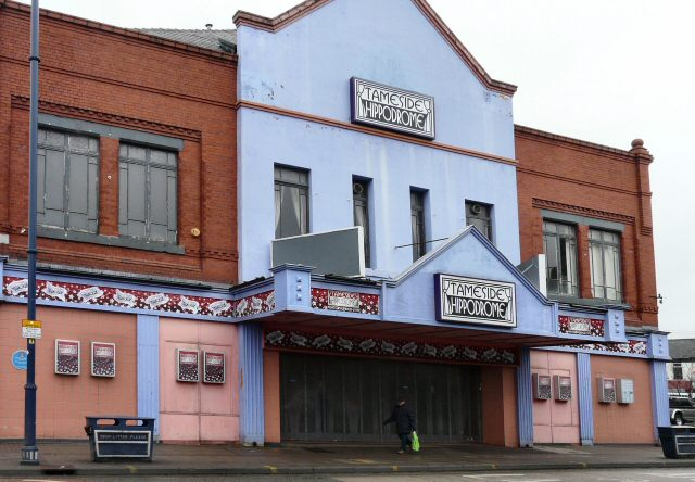 Tameside Hippodrome This popular theatre on Oldham Road, closed on 1st April 2008. Read the official line from Tameside Council at Needless to say, the decision was controvertial.